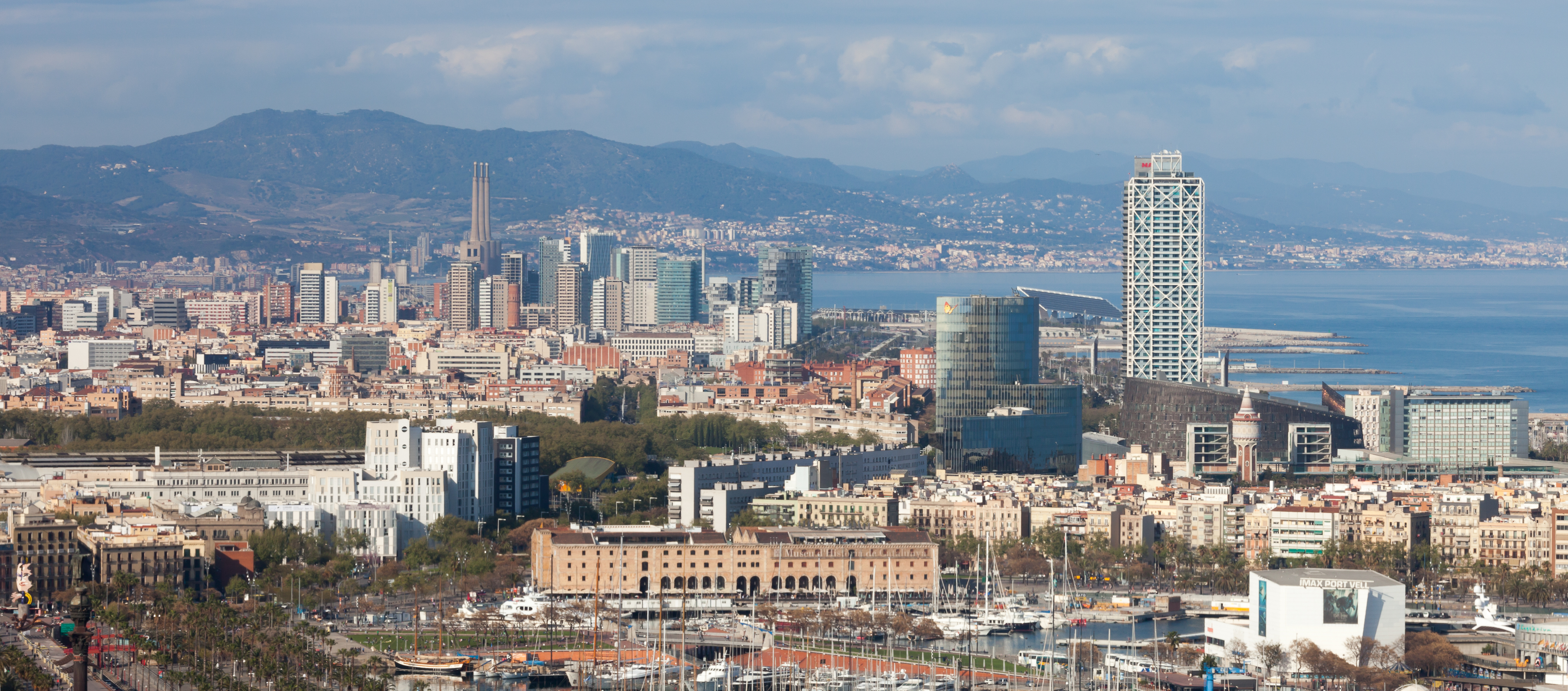 Detail of Barcelona, Catalonia.